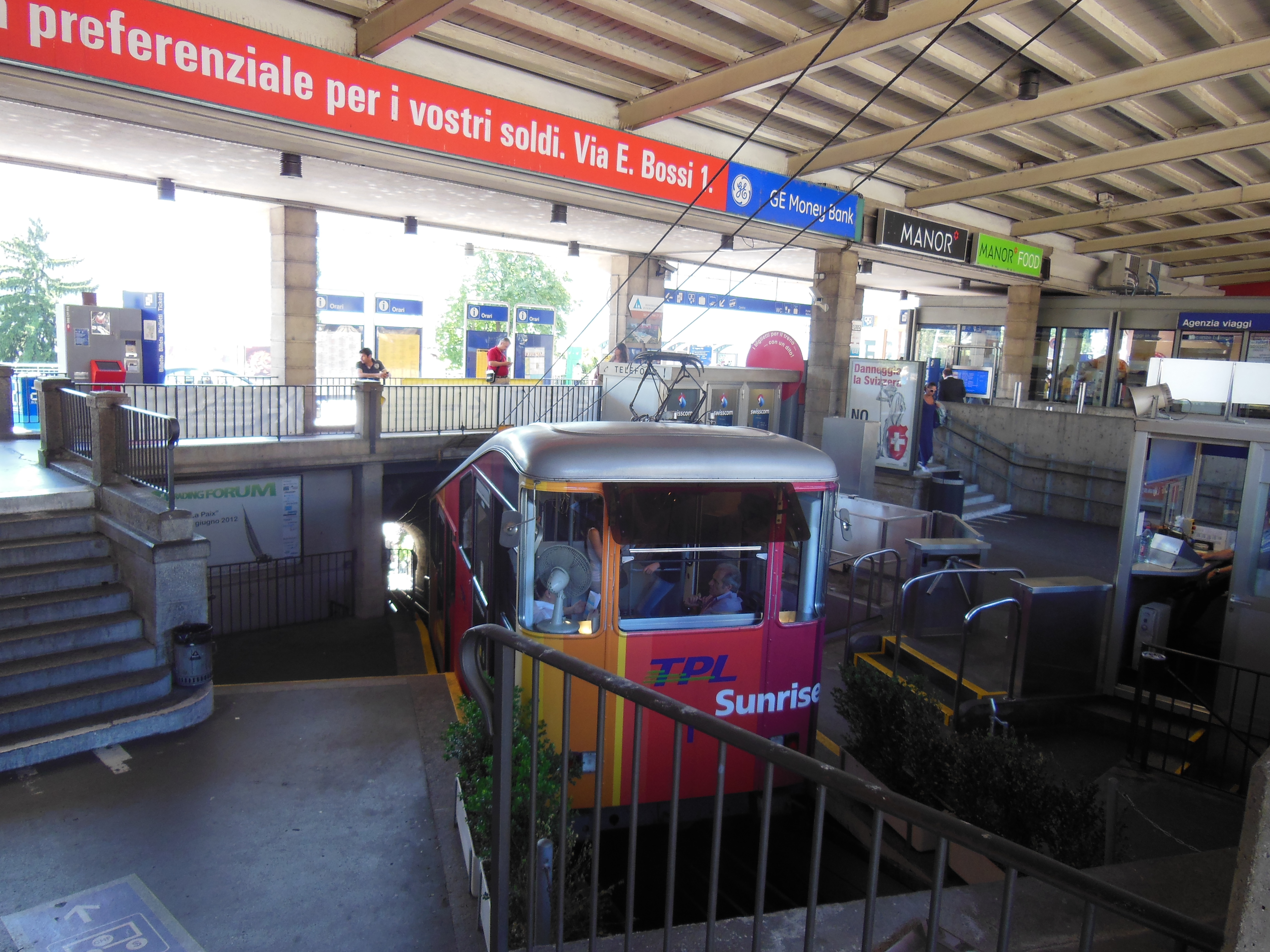 The Lugano Città–Stazione funicular at its upper terminus within Lugano railway station. For more information, see the Wikipedia articles Lugano Città–Stazione funicular and Lugano railway station.